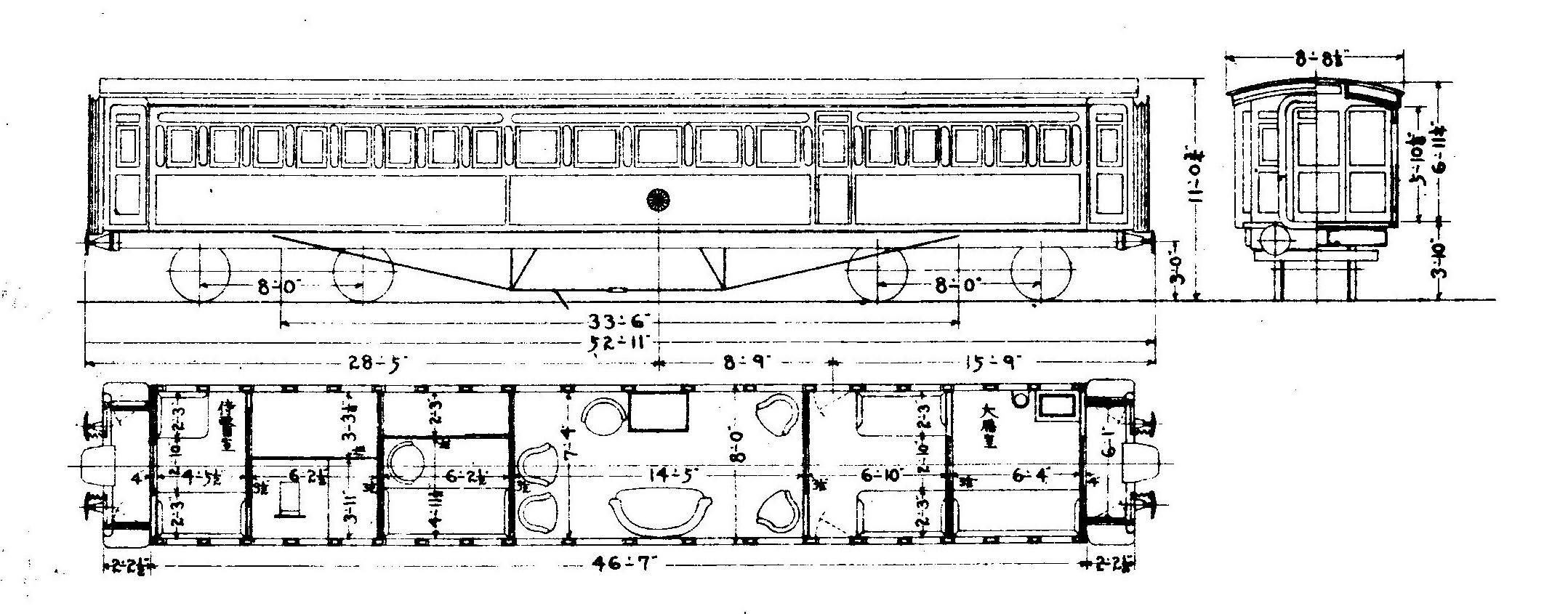 Type drawing of JGR's Imperial Car (Goryosha) No.5